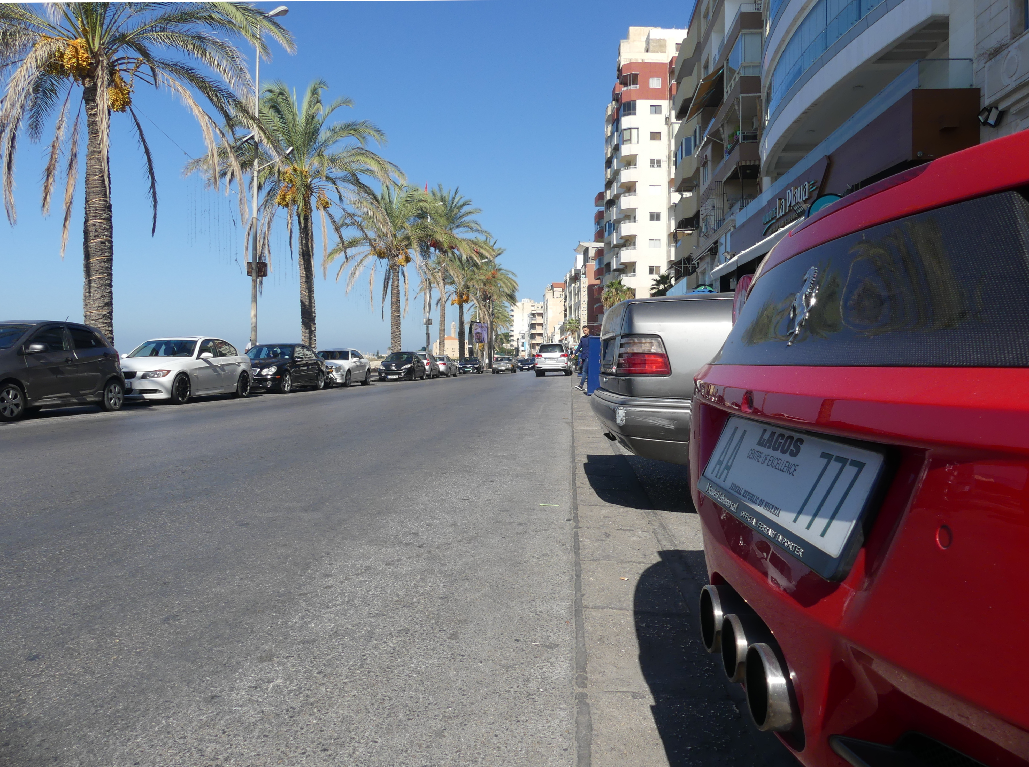 A Ferrari 458 with a number plate registered in Lagos, Nigeria, parked at the main promenade in the Southern Lebanese city of Tyre/Sour, which is known as "Little West Africa" since many of its inhabitants have relatives who emigrated to Western Africa